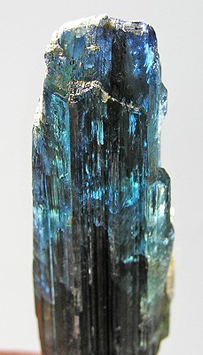 Kyanite Locality: Sultan Hamud, Umba Valley Region, Makueni District, Eastern Province, Kenya (Locality at ) Size: 7.4 x 1.9 x 1.5 cm. This is a Kenyan kyanite, and very distinctive. First, rather than being opaque a light blue as most kyanites are; this fat crystal is a gemmy, deep teal color. This gemminess runs top to bottom, too. Old material.